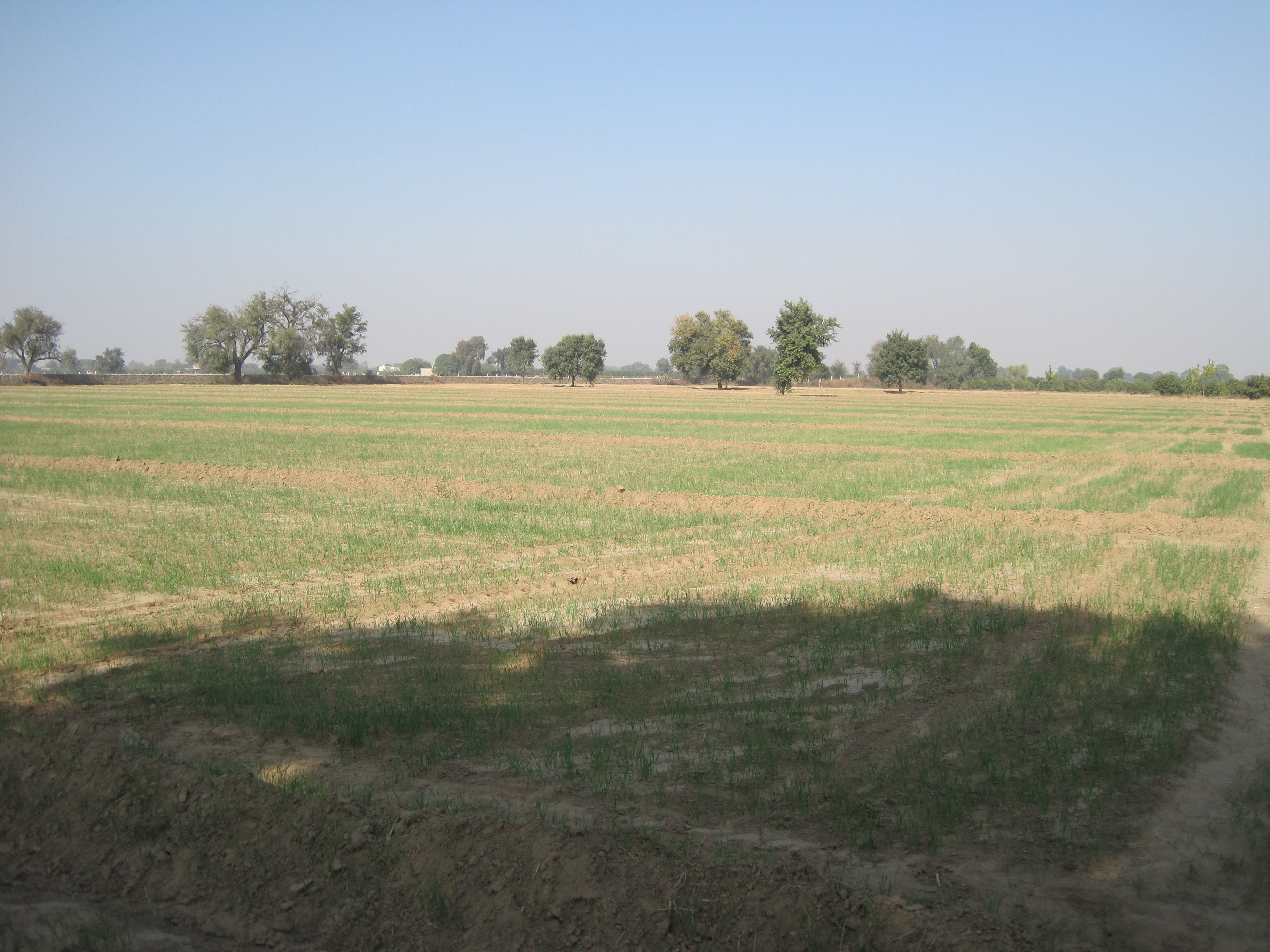 Dryland wheat